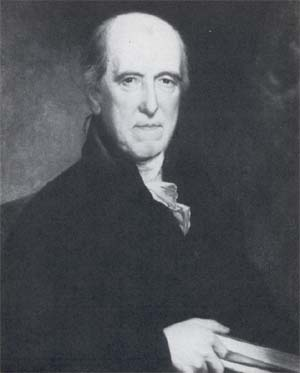 Jared Ingersoll